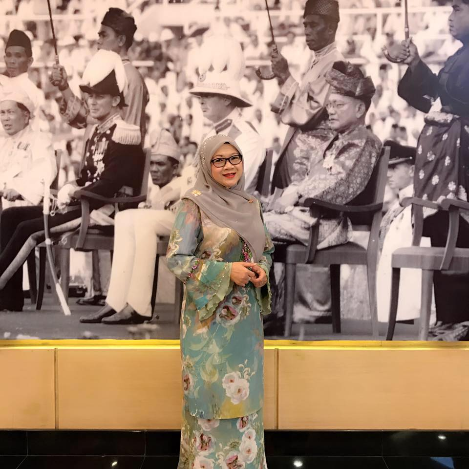 Merupakan ADUN Buloh Ksap,Johor